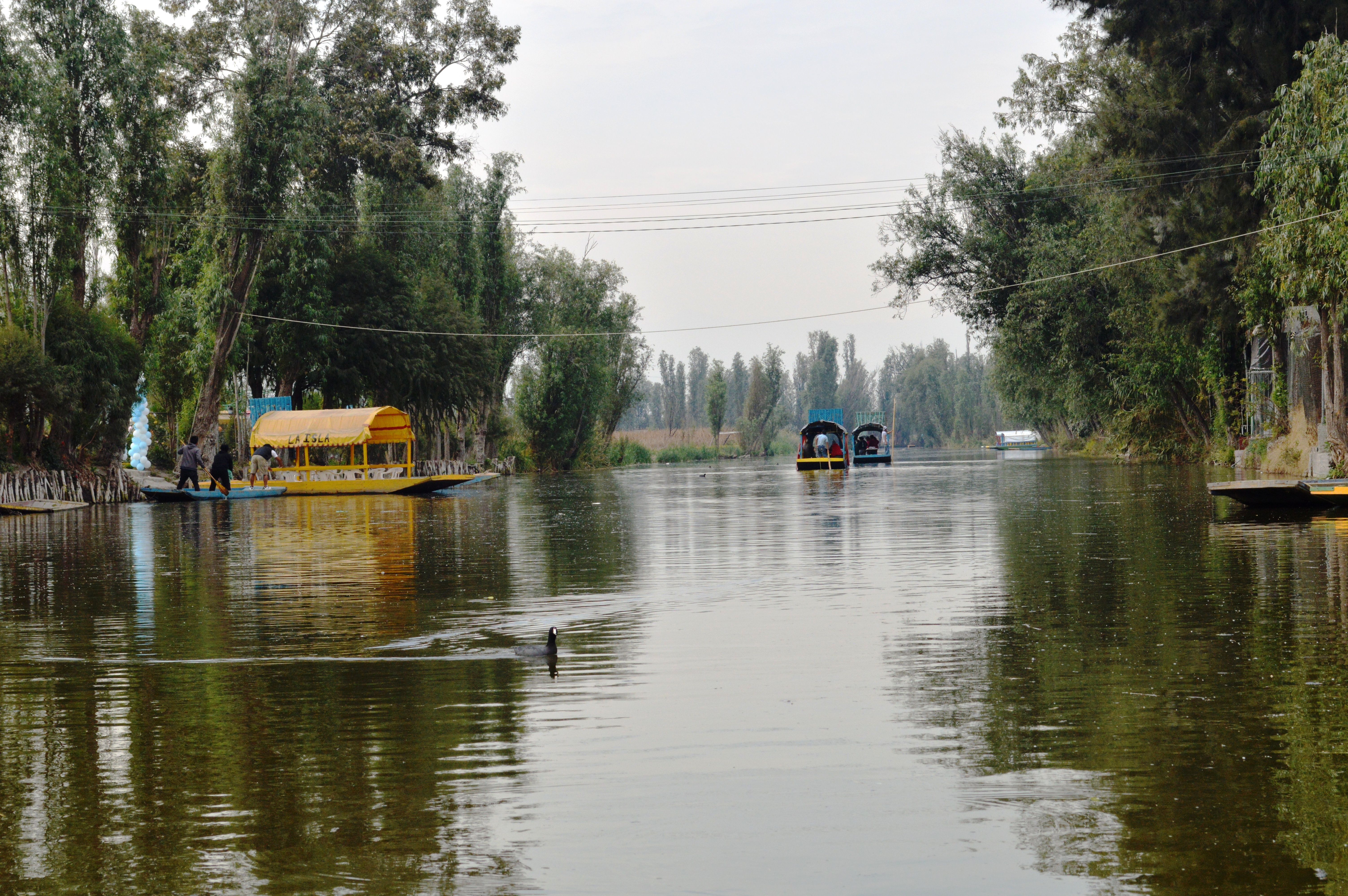 View of Lago de los Reyes in Tláhuac, Mexico City